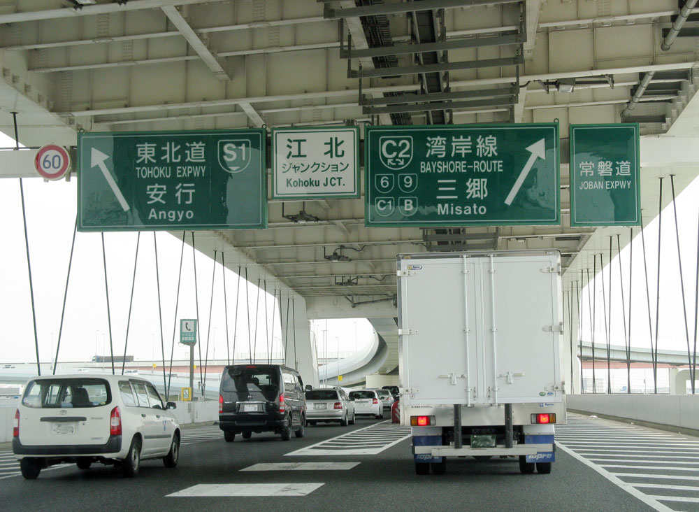 Kohoku Junction on the Metropolitan Expressway